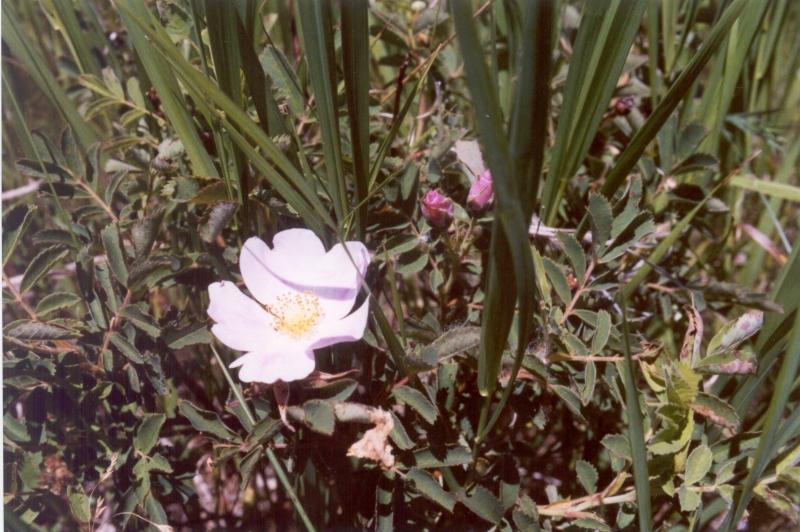 Prairie Rose, Knife River Indian Village National Historic Site